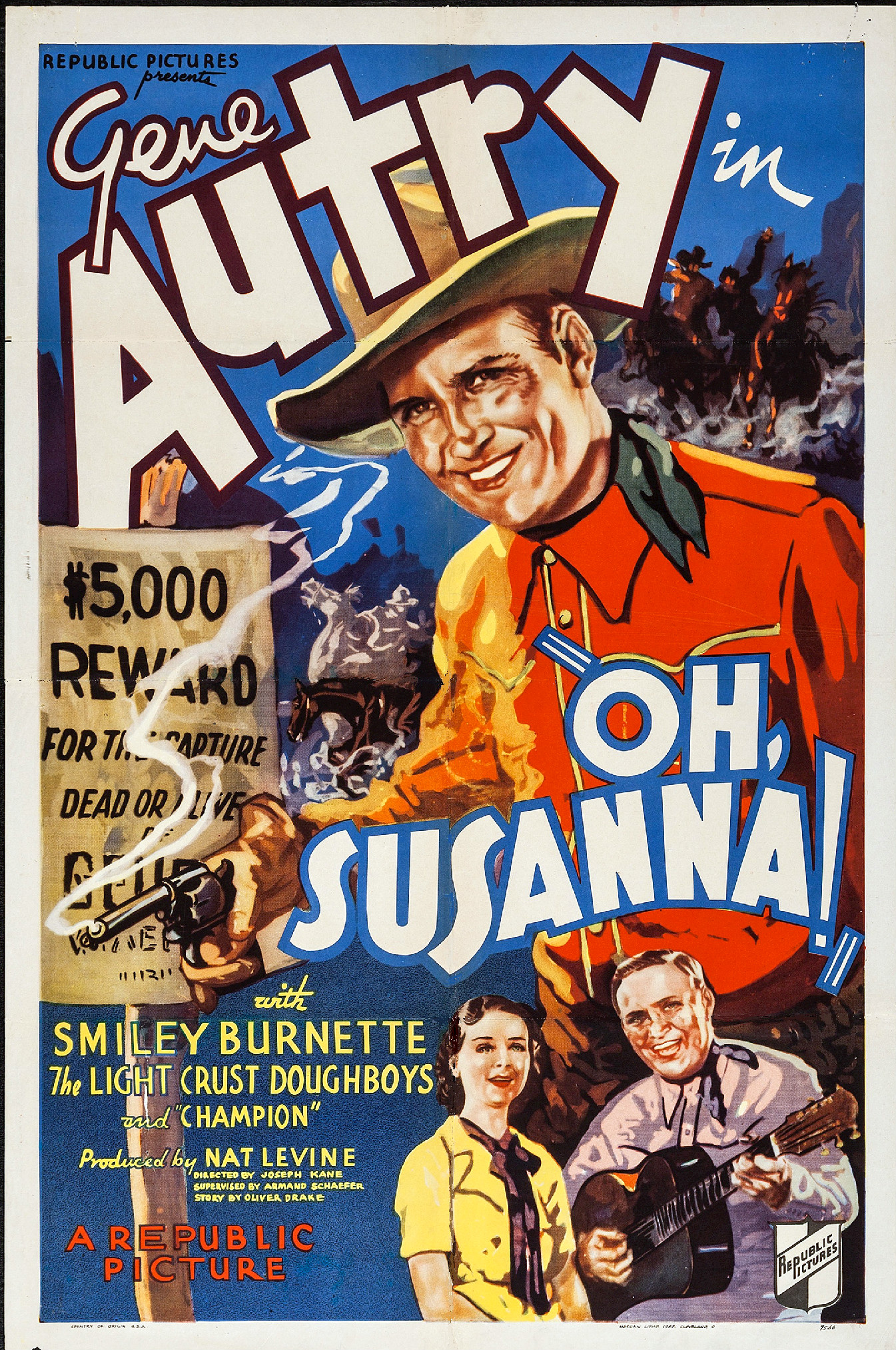 Poster for the 1936 film Oh, Susanna!. There are no copyright marks on the item, which can be seen at the link. At bottom left is Country of origin USA. At bottom right is Morgan Litho Corp, Cleveland, O.--they printed the poster-and 9566-probably connected with the printing of the poster.